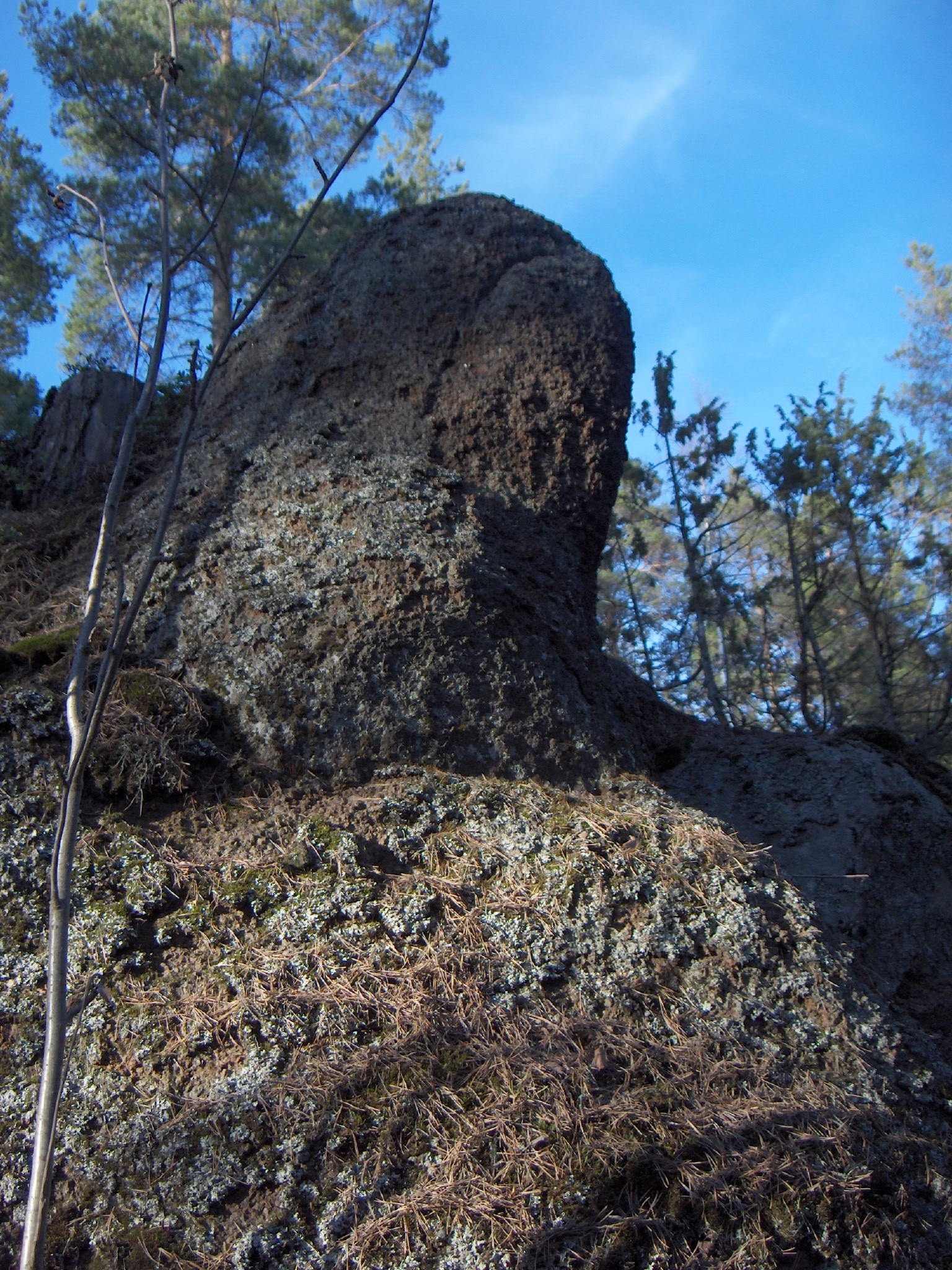 Stones at Pukinvuori hill fort at Jämsä, Finland.